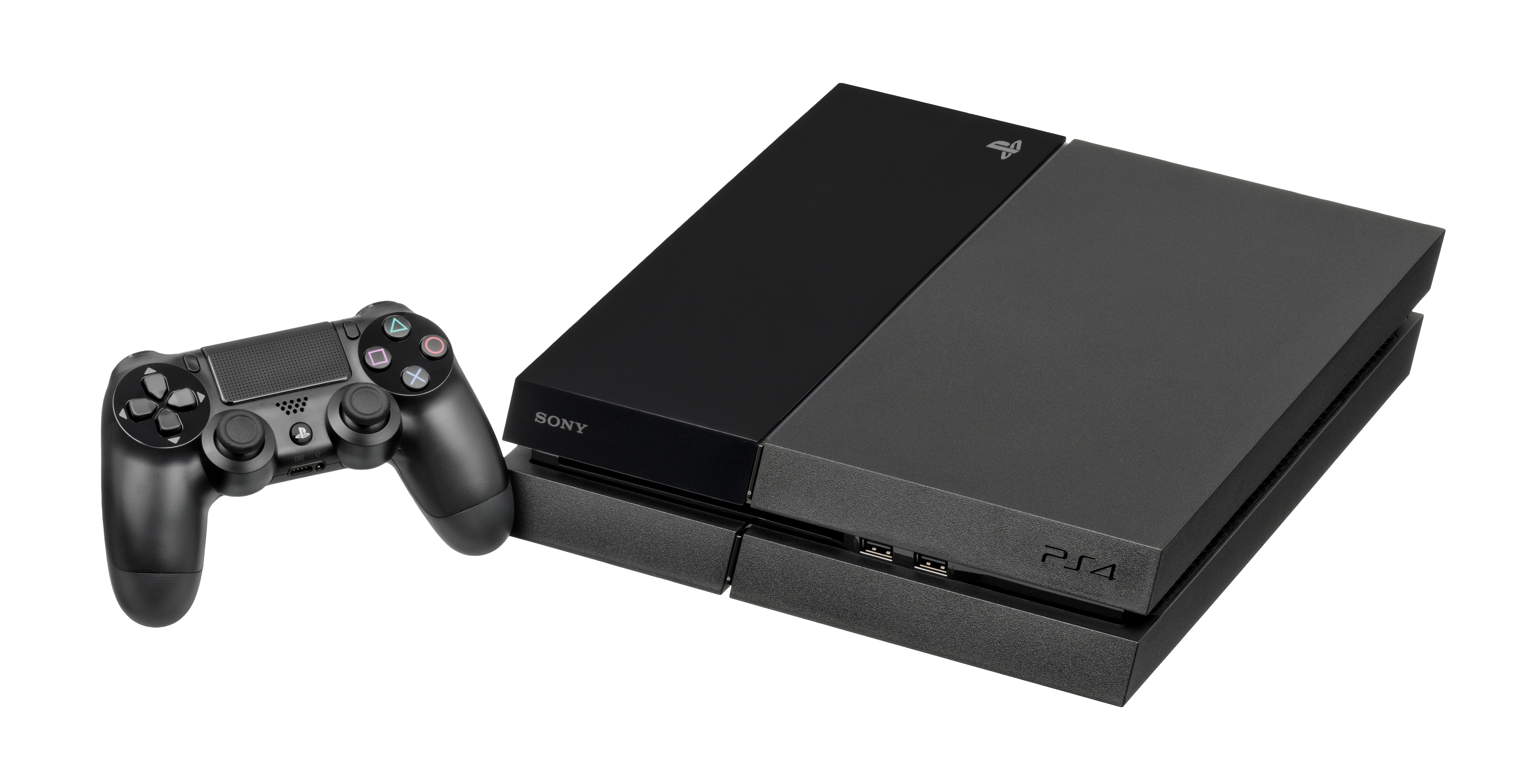 The PlayStation 4 and DualShock 4 controller, a video game console made by Sony and first sold in November 2013.